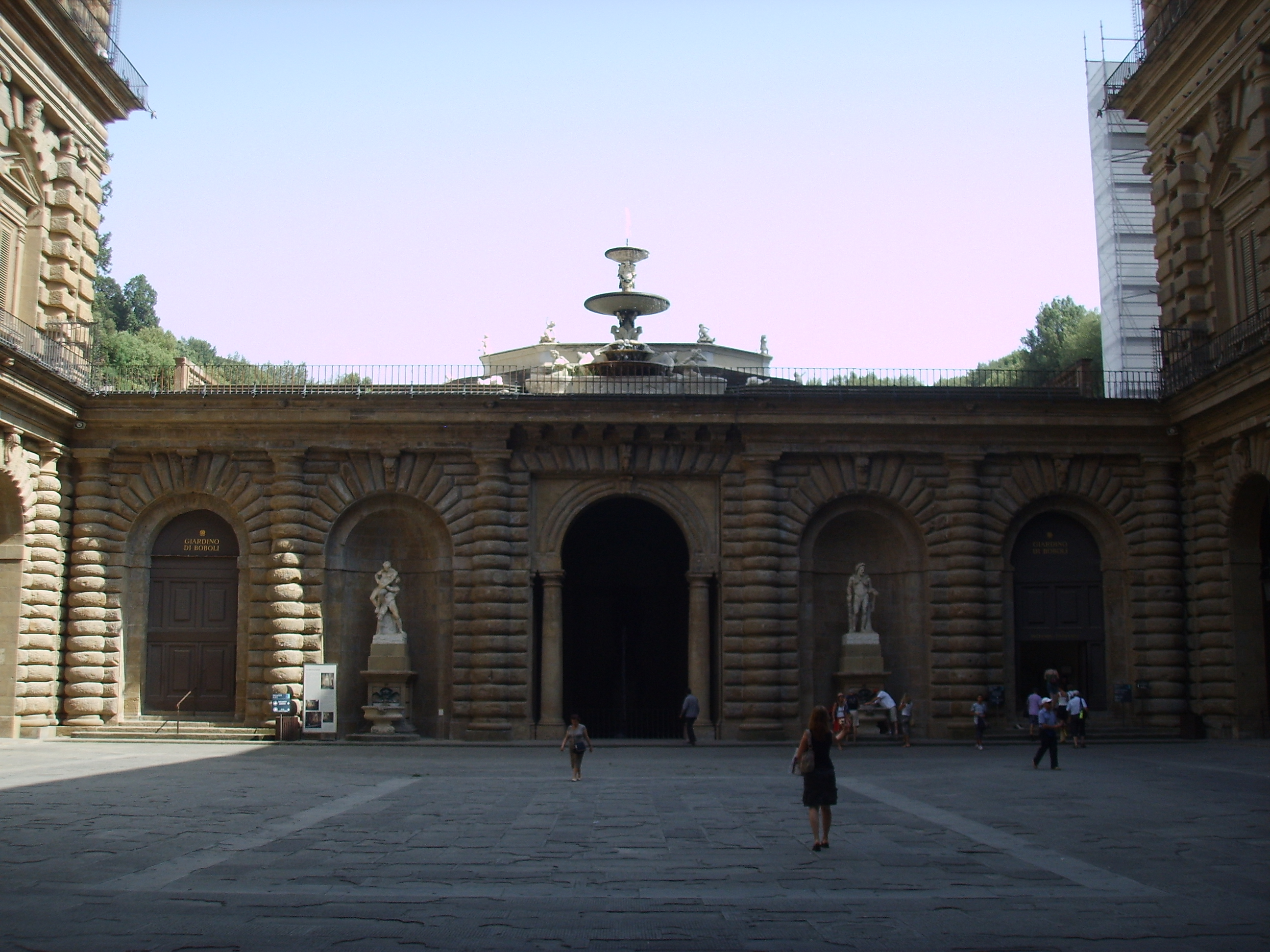 Palazzo Pitti, main courtyard, in Florence Italy.